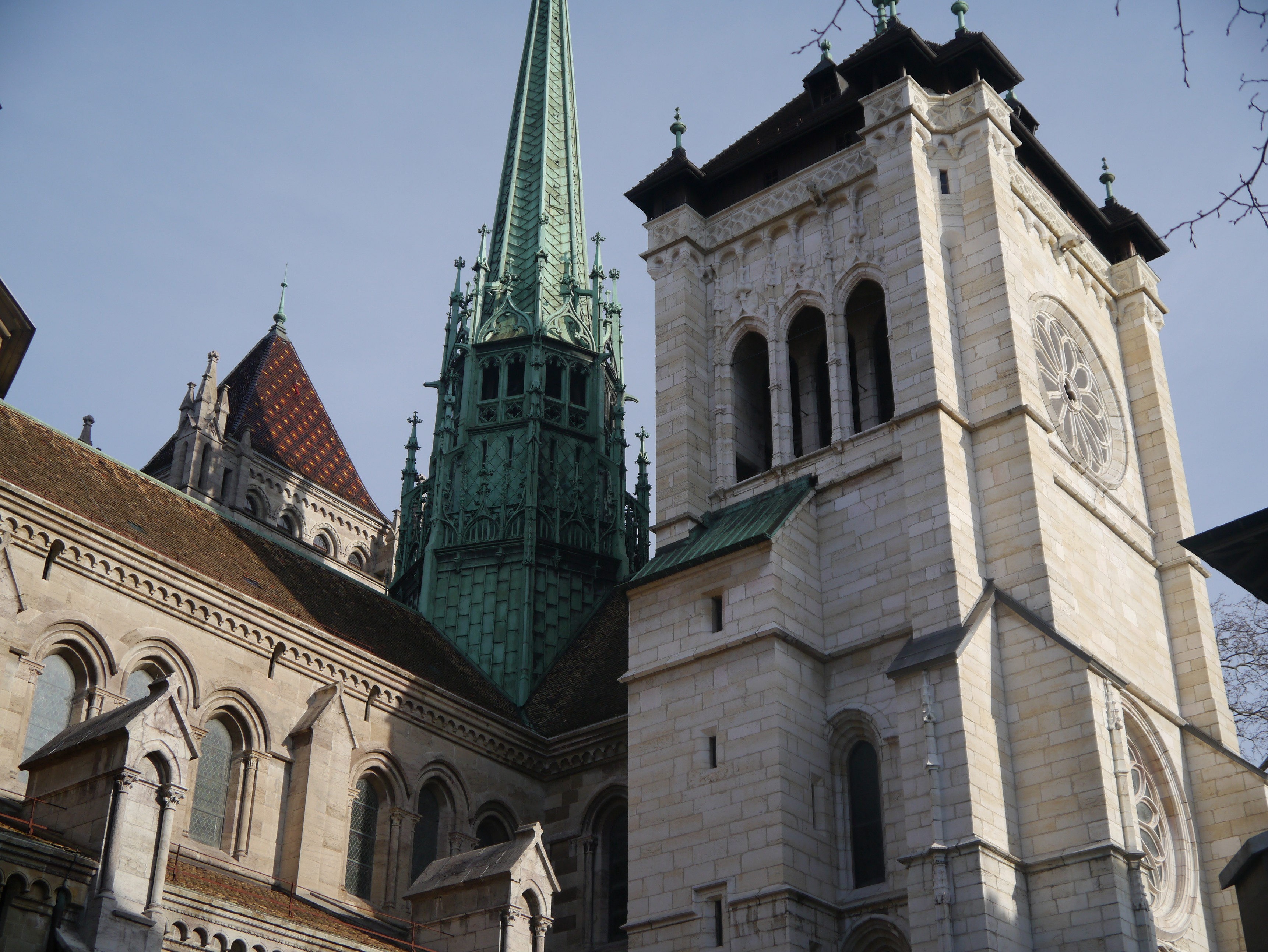 Cathedral St. Peter, Geneva, Canton of Geneva, Southwestern Switzerland